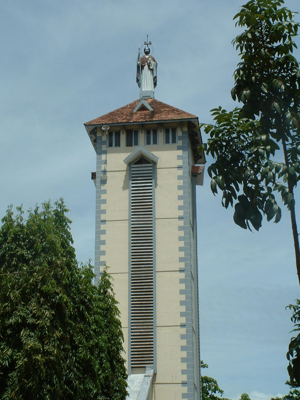 The bell tower of St Mary's Cathedral Basilica, Kochi, Kerala, India.